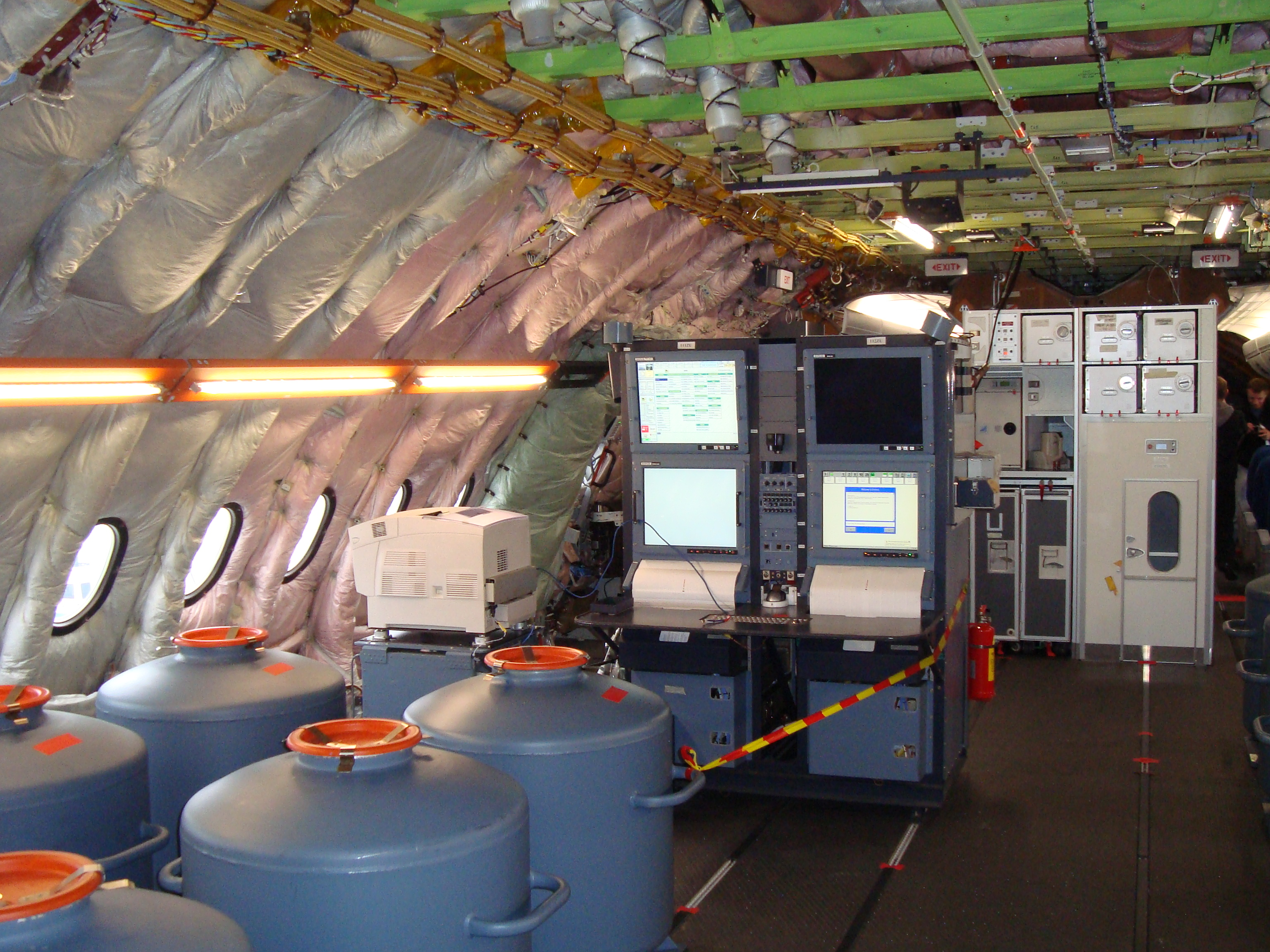 Photo taken in Moscow Domodedovo airport (2009)